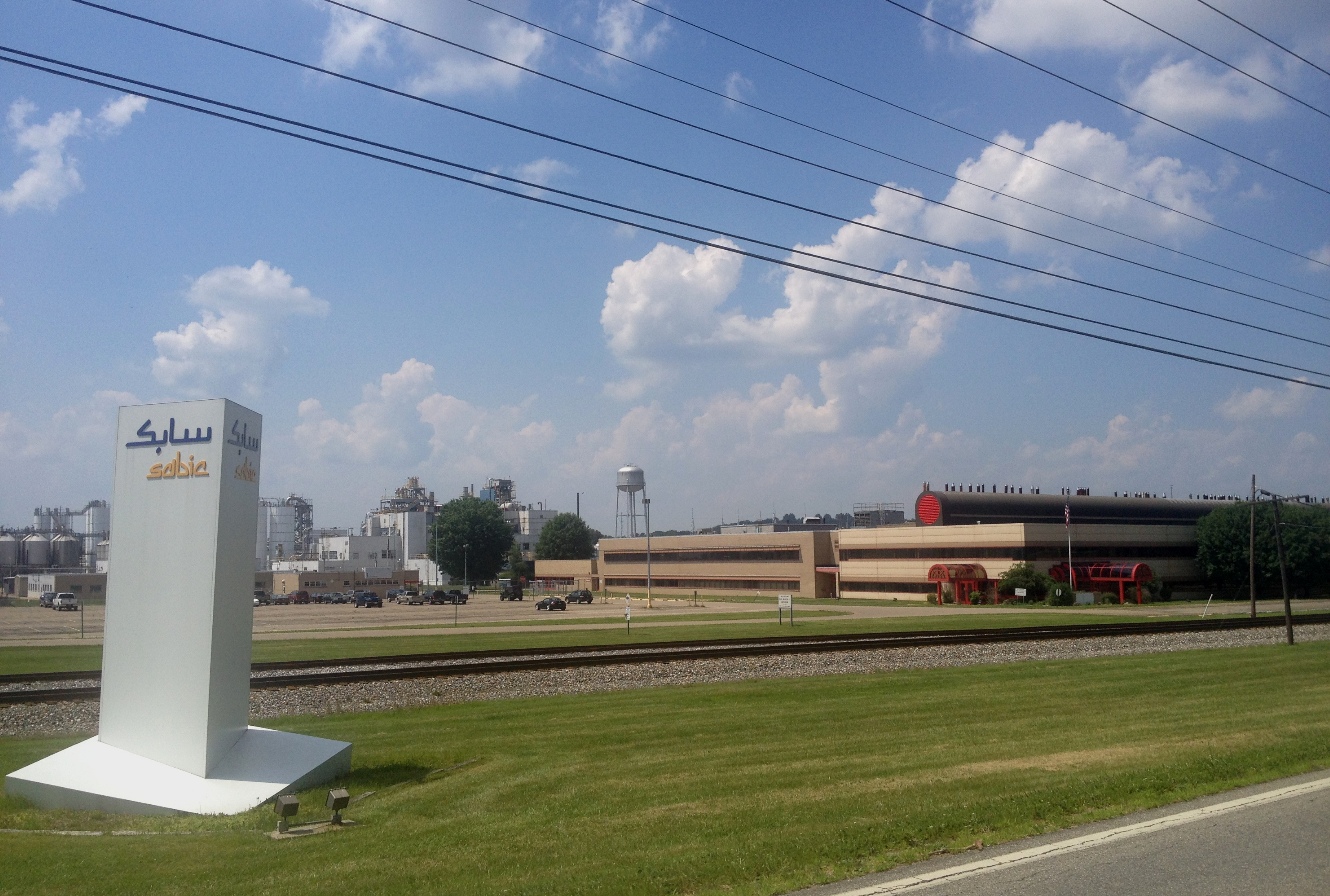 SABIC plastics plant and technical centre in Washington, West Virginia.